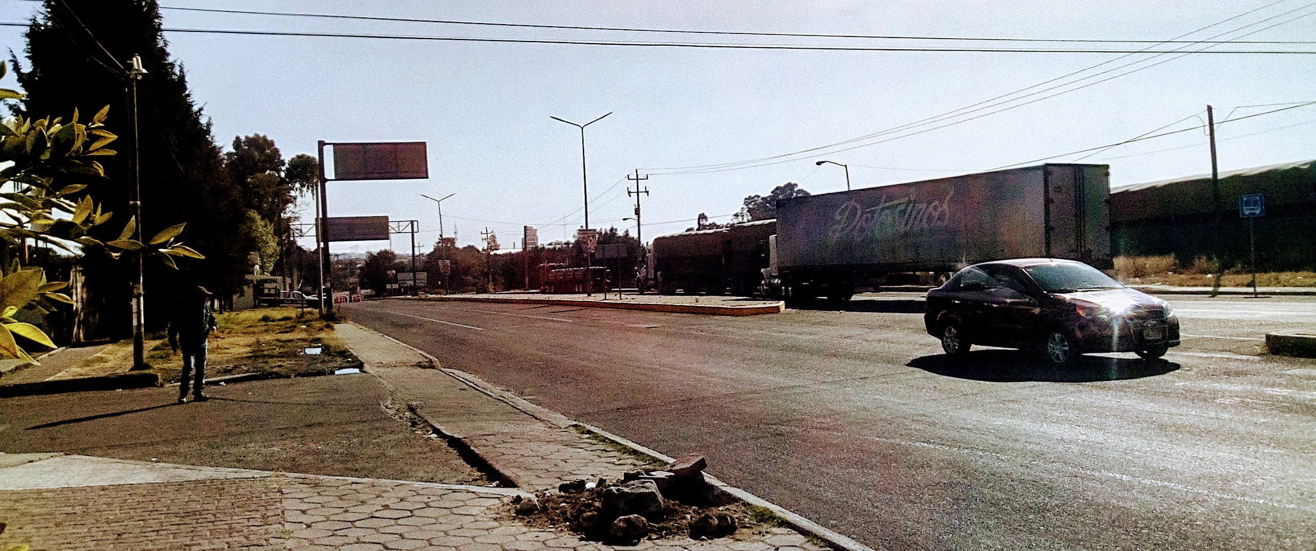 La Carretera Federal 119 pasando frente a la Zona Industrial Panzacola